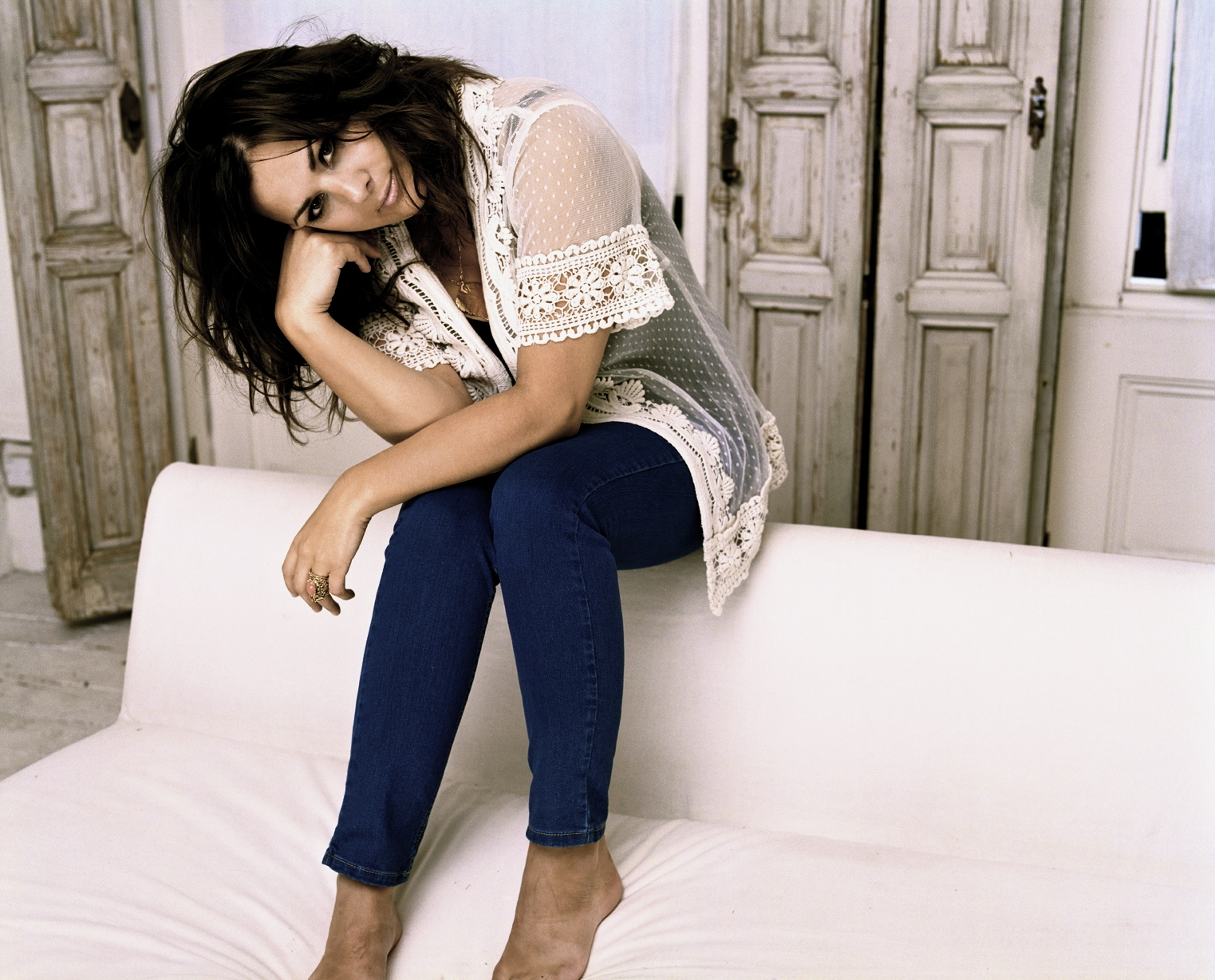 Rumer Joyce